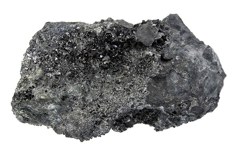 Cannizzarite Locality: Kudriavy (Kudryavyi) volcano, Iturup Island, Kuril Islands, Sakhalinskaya Oblast', Far-Eastern Region, Russia (Locality at ) Size: small cabinet, 7.4 x 4.0 x 3.9 cm Cannizzarite This is a remarkably rich, sparkling specimen just smothered with sharp microcrystals of this rare species (to perhaps 1mm...certainly eye visible). This location has also given us rheniite, and is a very important occurence for rare metallic species formed from the volcanic vents here. Analyzed and from the inventory of Josef Vajdak, who sold me his collection last month.